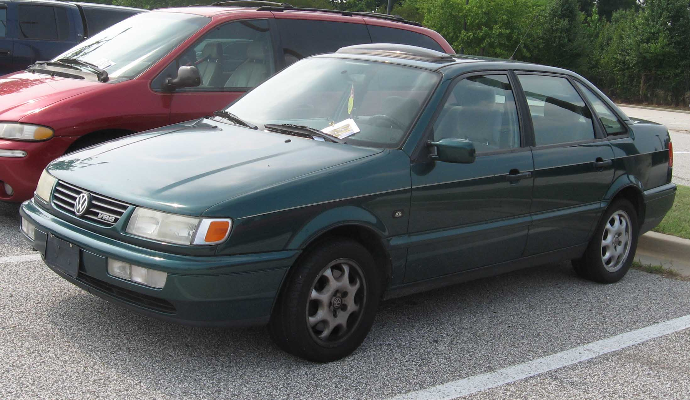 1994-1997 Volkswagen Passat photographed in USA.